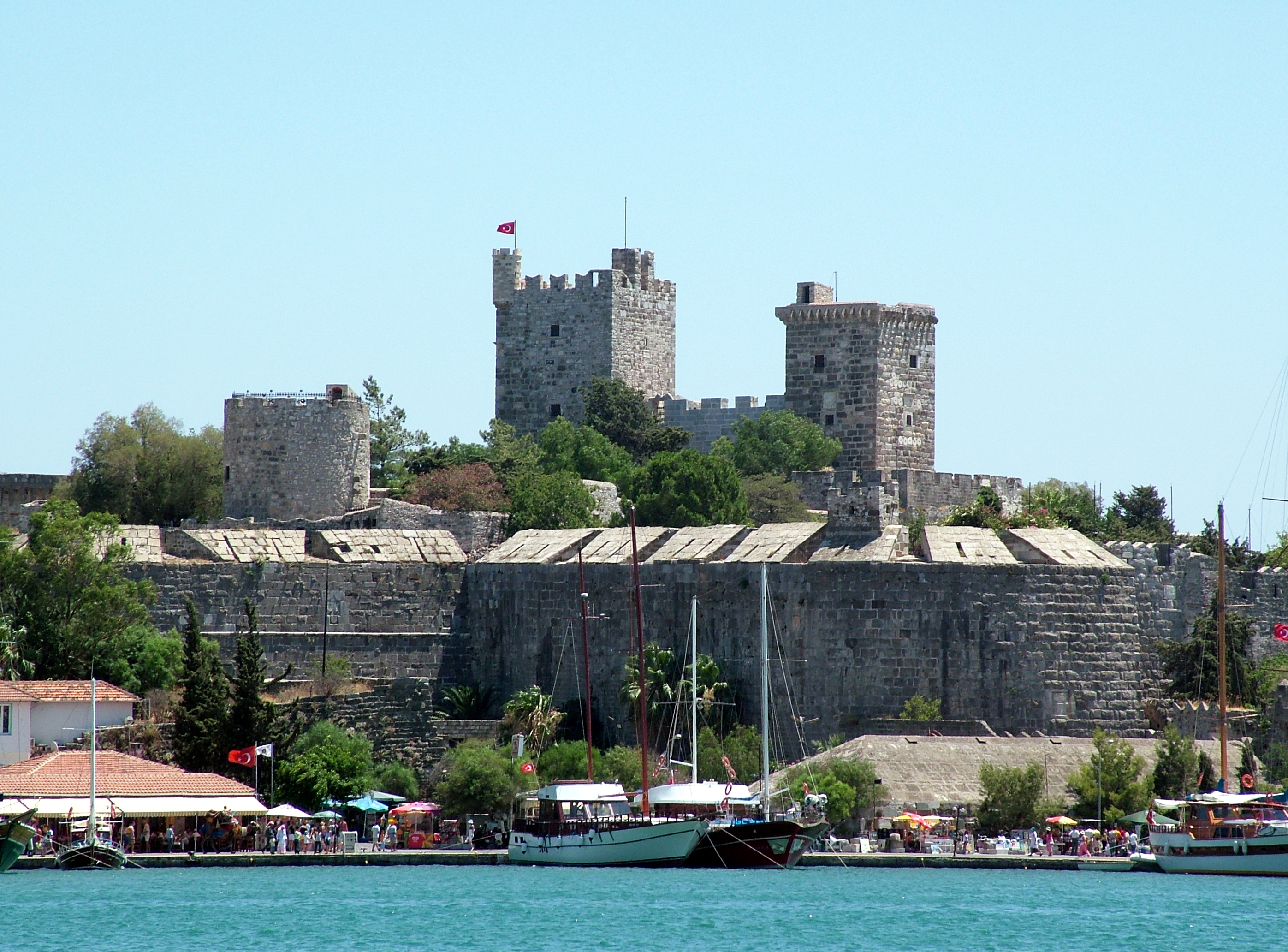 Castle in Bodrum, Turkey